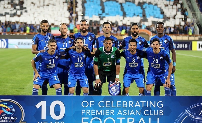 Esteghlal squad, Esteghlal-Sadd